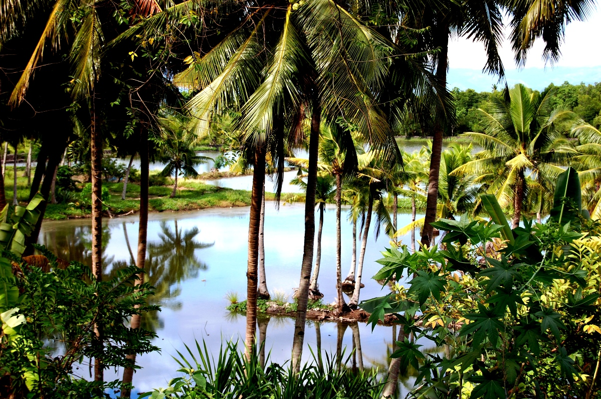 Fish pond, Badian, Cebu, Philippines